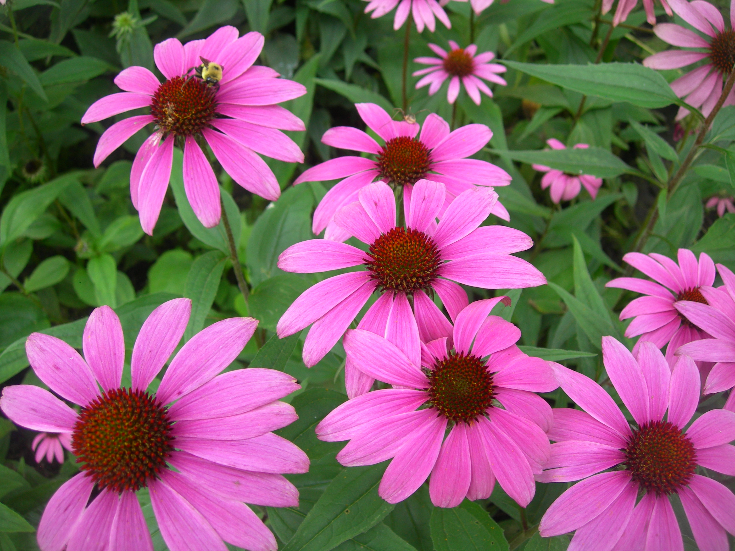 Purple coneflower